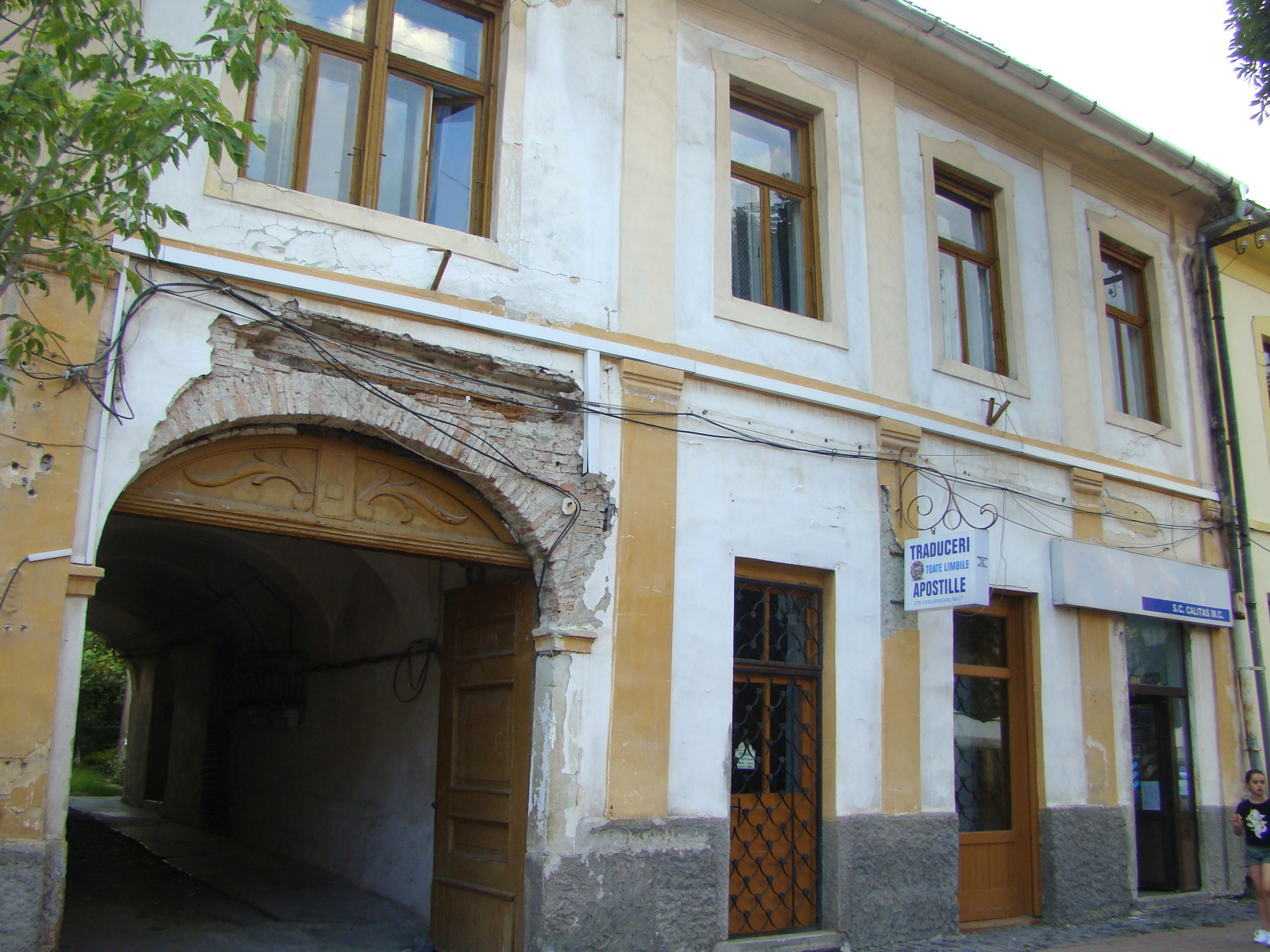 House, historic monument, in Bistrița, Liviu Rebreanu street 17